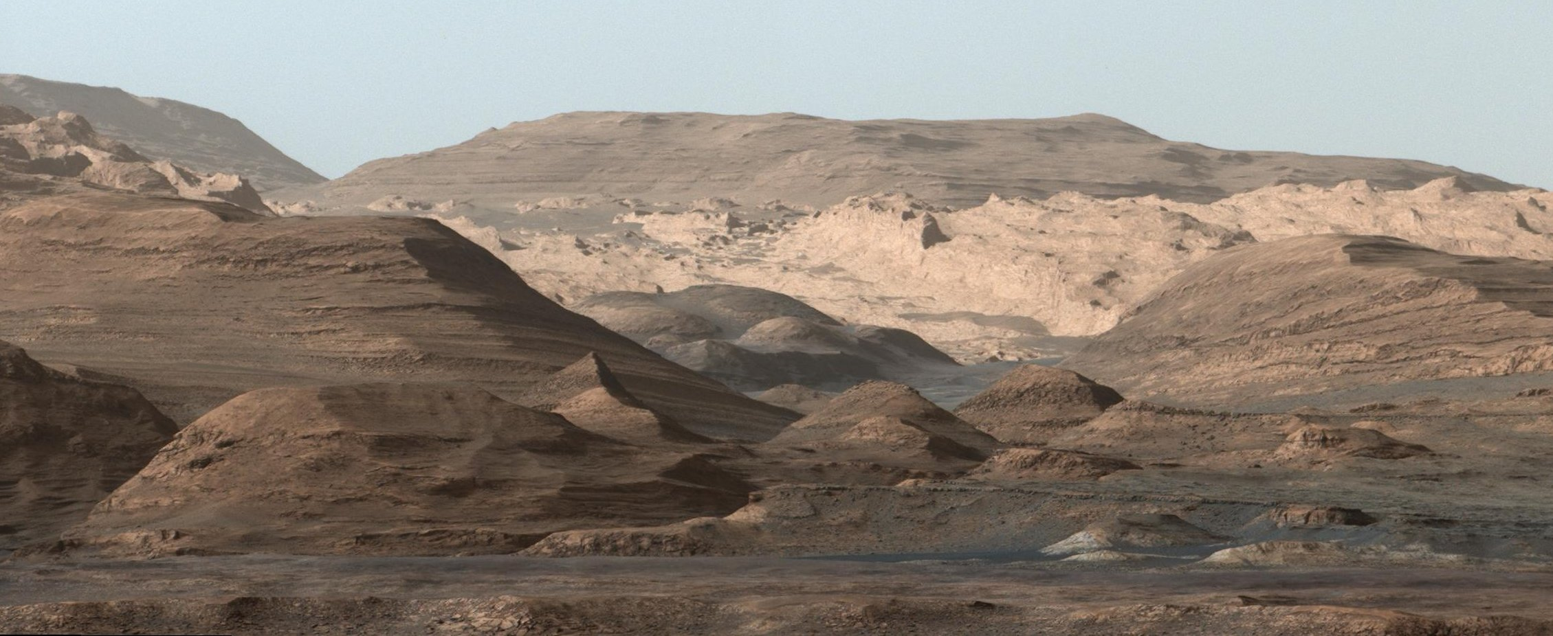 PIA19912: Mount Sharp Comes In Sharply This composite image looking toward the higher regions of Mount Sharp was taken on September 9, 2015, by NASA's Curiosity rover. In the foreground -- about 2 miles (3 kilometers) from the rover -- is a long ridge teeming with hematite, an iron oxide. Just beyond is an undulating plain rich in clay minerals. And just beyond that are a multitude of rounded buttes, all high in sulfate minerals. The changing mineralogy in these layers of Mount Sharp suggests a changing environment in early Mars, though all involve exposure to water billions of years ago. The Curiosity team hopes to be able to explore these diverse areas in the months and years ahead. Further back in the image are striking, light-toned cliffs in rock that may have formed in drier times and now is heavily eroded by winds. Malin Space Science Systems, San Diego, built and operates Curiosity's Mastcam. NASA's Jet Propulsion Laboratory, a division of the California Institute of Technology, Pasadena, built the rover and manages the project for NASA's Science Mission Directorate, Washington. For more information about Curiosity, visit and . More information about Curiosity is online at and NB: Colors in this image would be seen by a human being if went there, nor are they the true colors captured by Curiosity's Mastcam camera. The white balance treatment, based on physical calibration studies, permits to appreciate the landscape as if it were transported on Earth, with the illumination characteristics of a clear sunny and dry day at equivalent latitude.